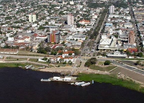 Aerial view of the city of Formosa, Argentina.